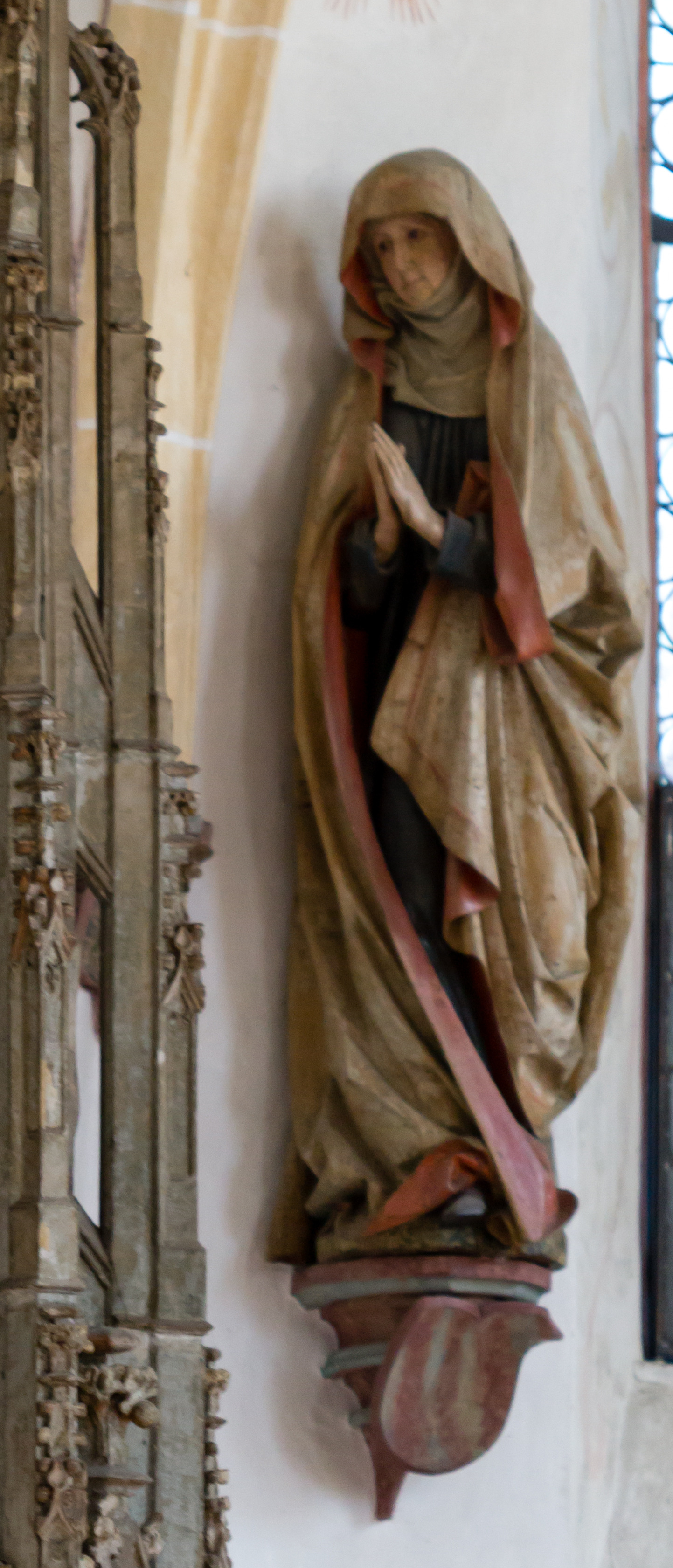 The so called "Butenburger Madonna" in the chapel of the castle of Blutenburg.